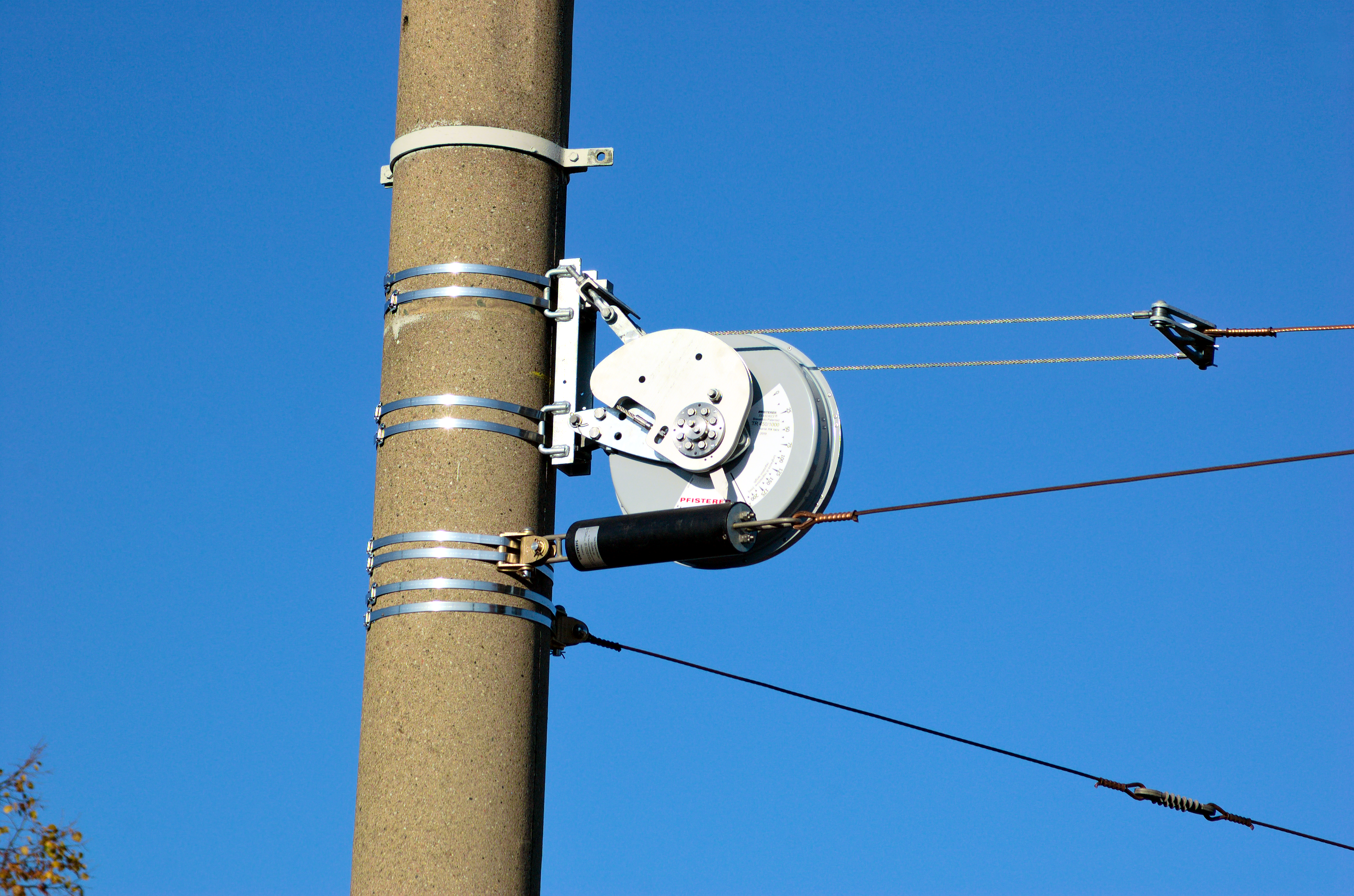 With the modernization of track and platforms in 2010, the original plans had called for an interchange station between tram, city as well as regional bus lines to be constructed at the same time. However, major work on this project has only begun this April and is scheduled to be completed in December.